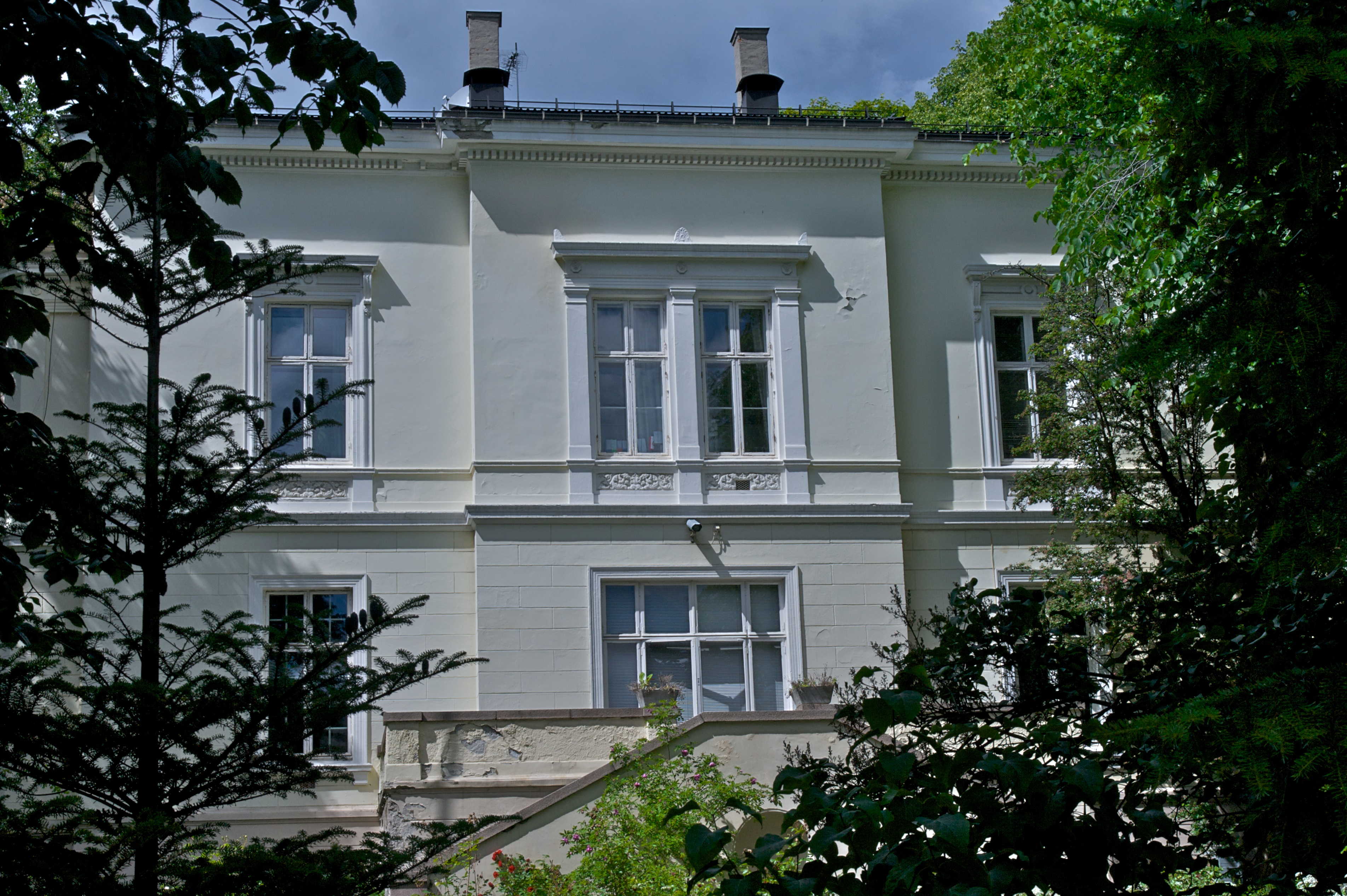 Italian Embassy, Oslo, Norway.